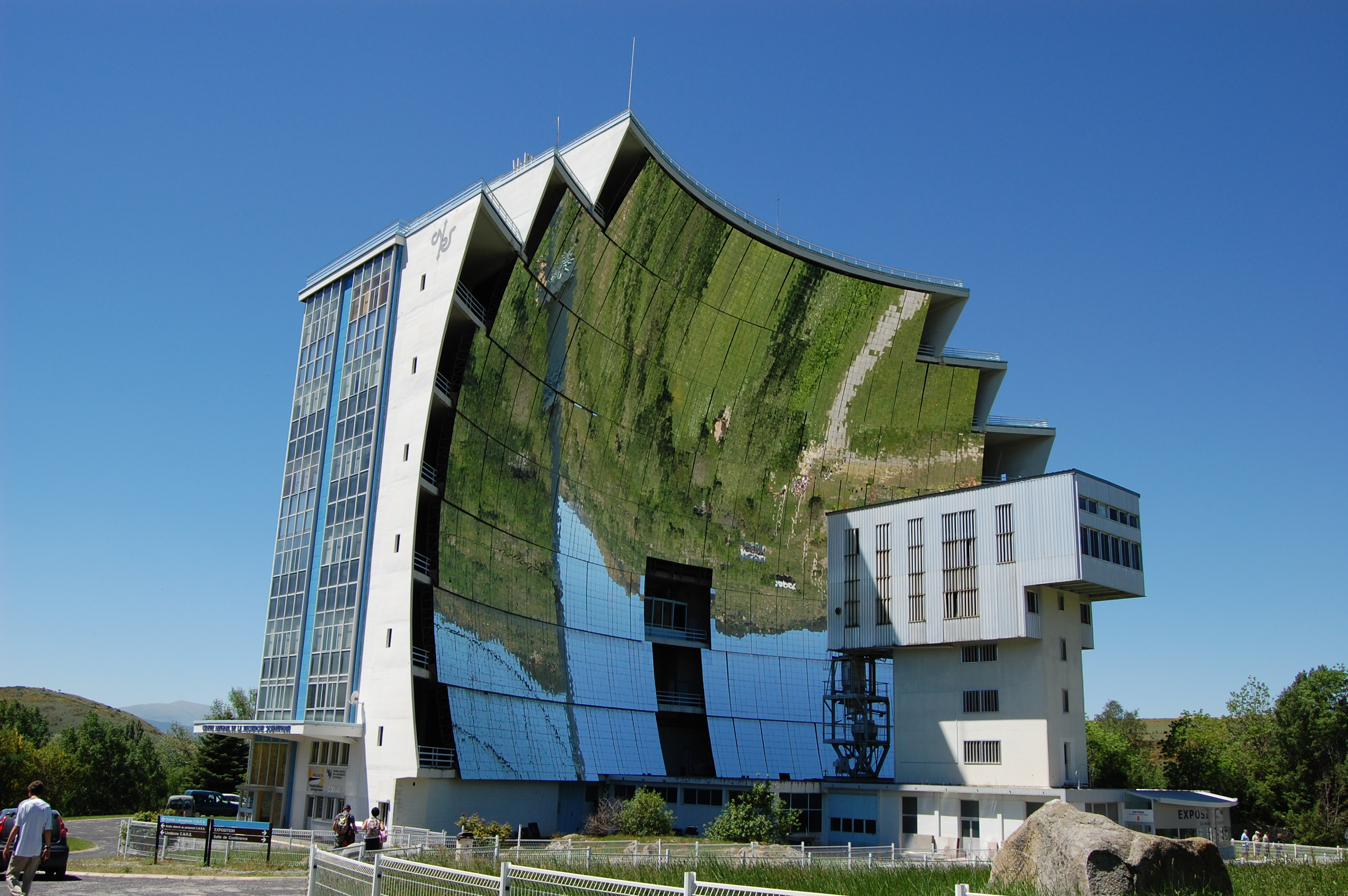 Odeillo Solar Furnace. CNRS laboratory.